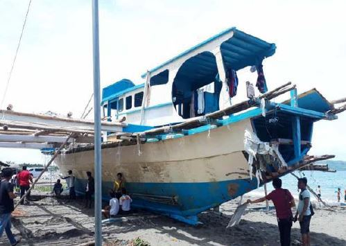 Fishing Banca Gem-Ver's stern after Reed Bank incident